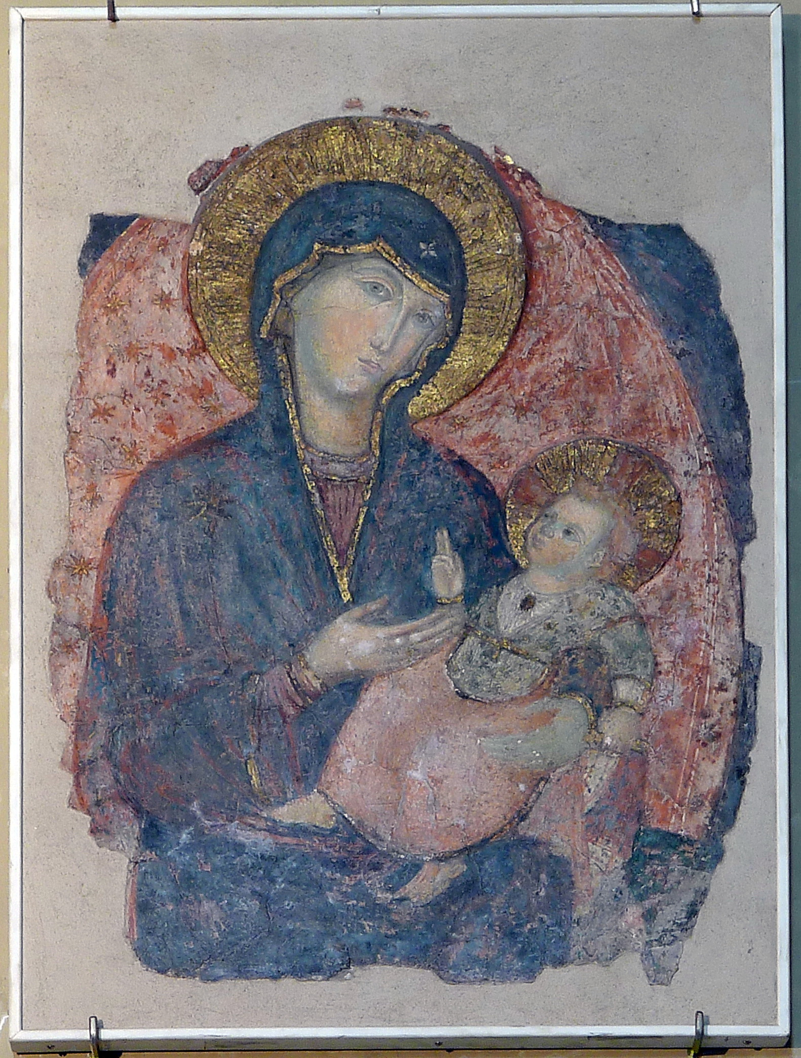 Santa Maria sopra Minerva (Rome), Cappella Giustiniani, Madonna by Duccio di Buoninsegna